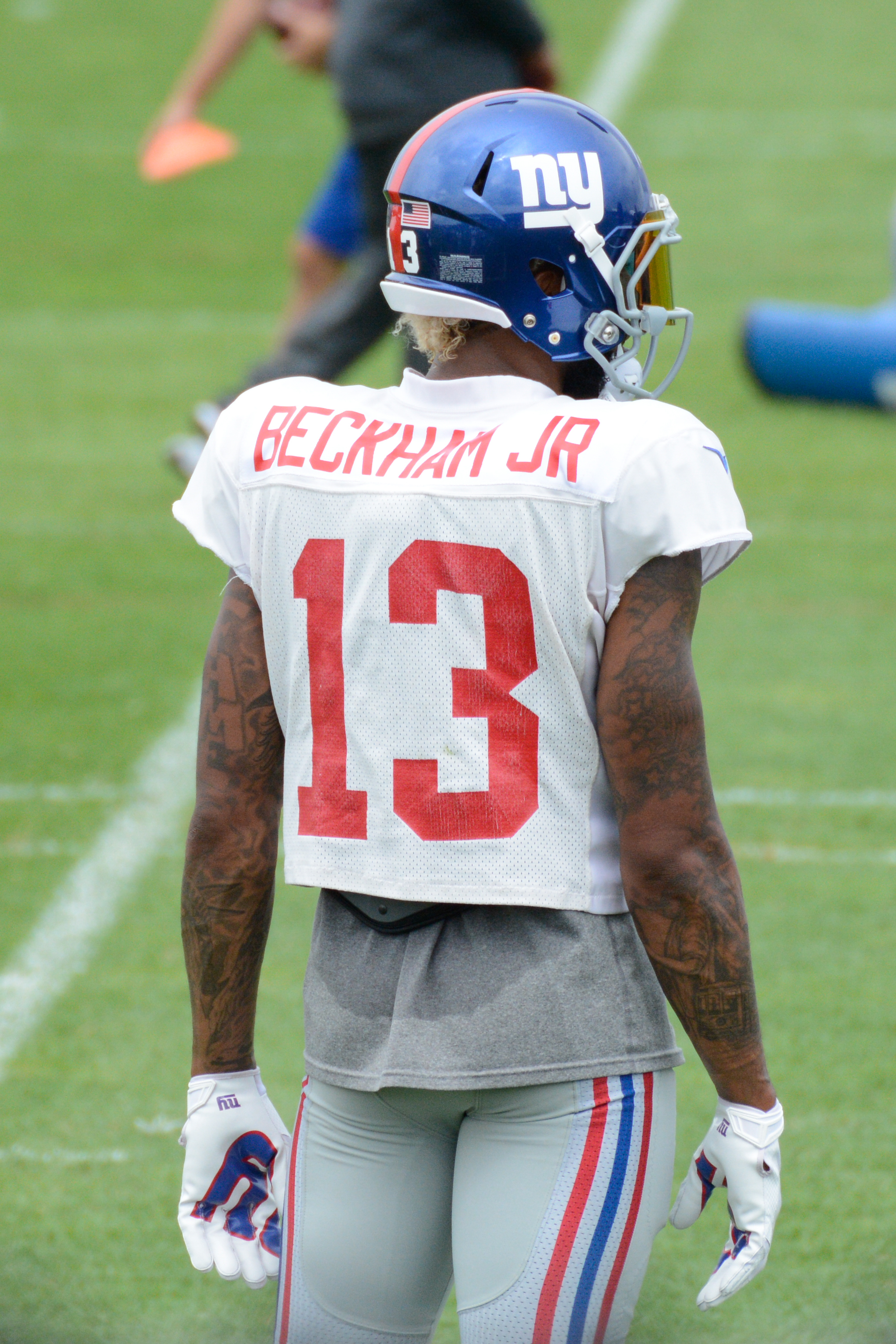 New York Giants training camp